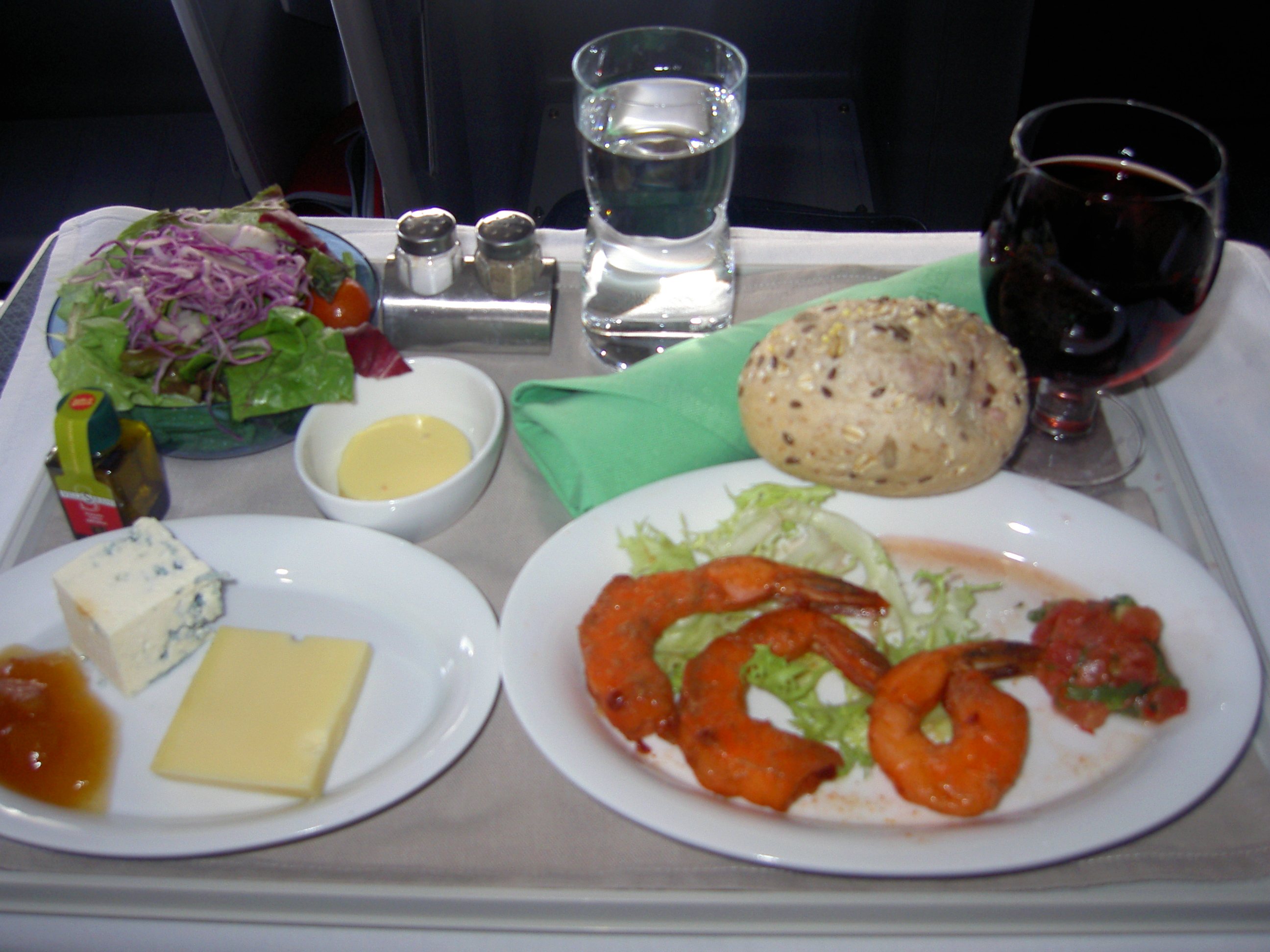 We had the wonderful experience of flying business class. No, we're not rich! But we had a lot of Miles and More frequent flyer miles saved up and got an upgrade!